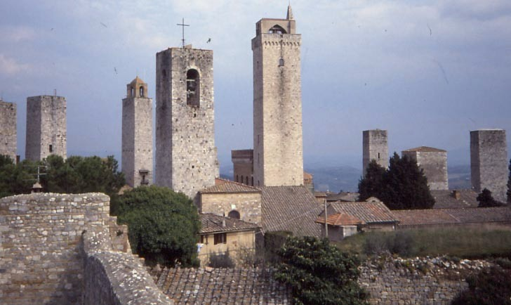 San Gimignano in Italy. Note: Its called San Gimignano, the author of this page made some mistakes at the picture.